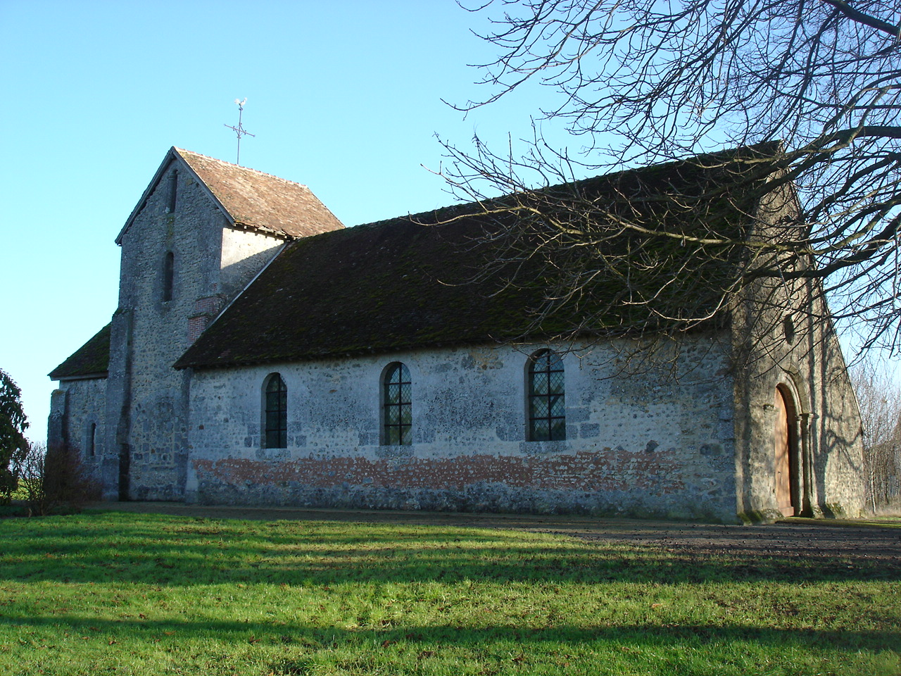 Saint Rufin and Saint Valère church of Pierre-Morains (12th century),Marne , France